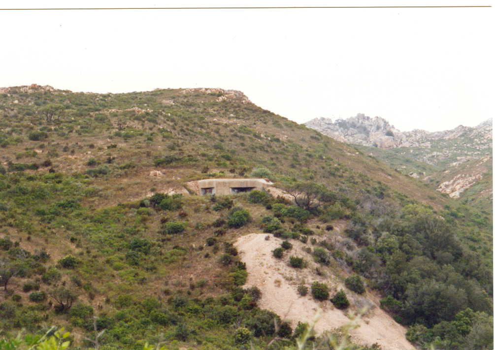 A military bunker in the south of Corse, France